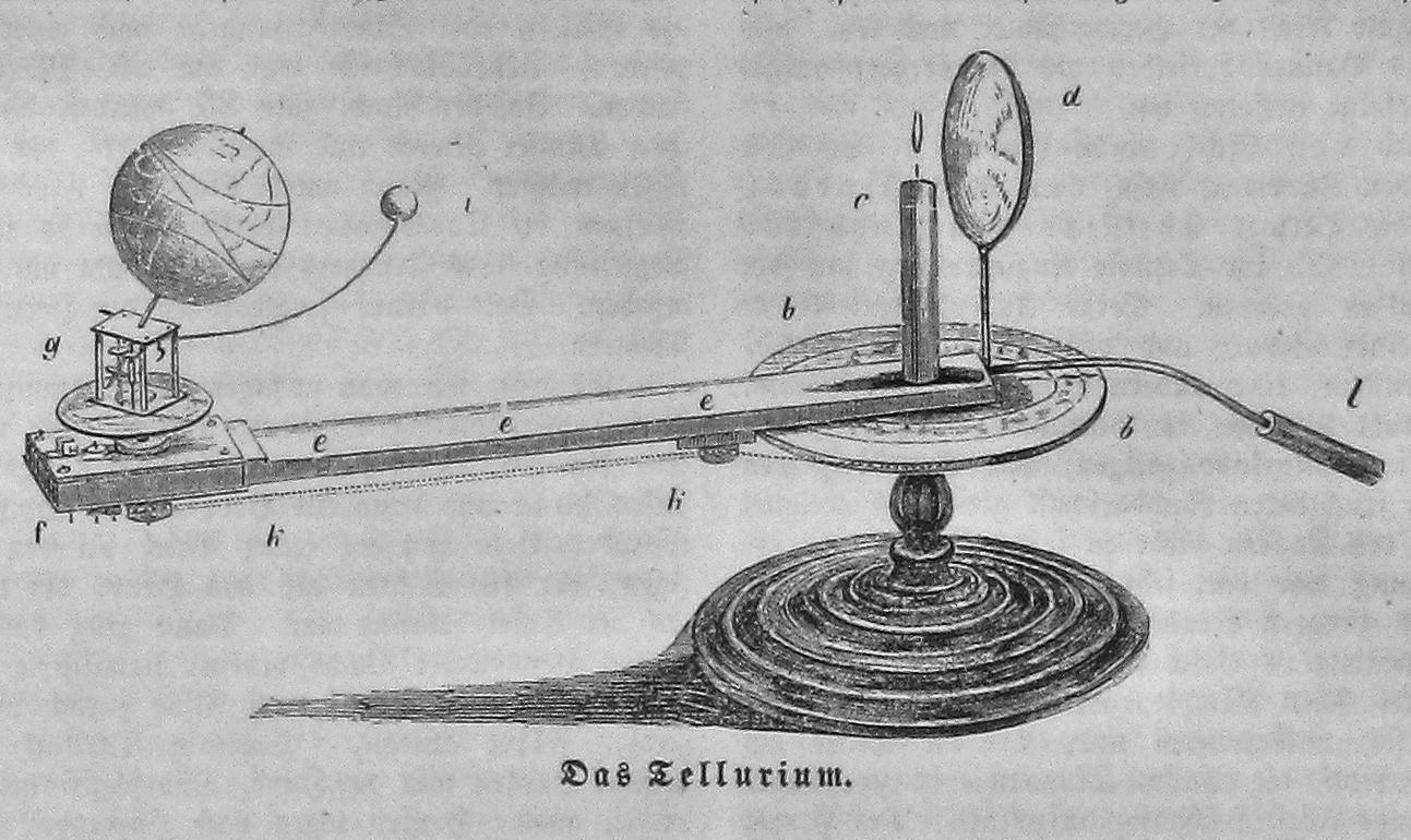 caption: "Das Tellurium."